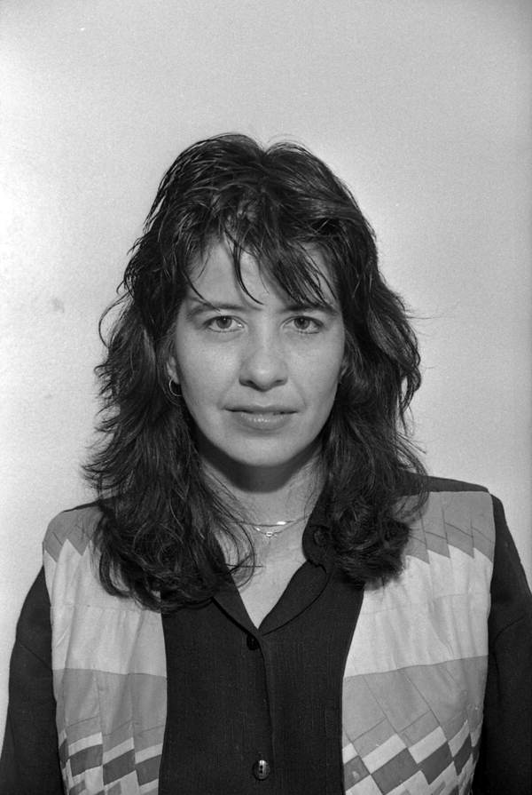 Portrait of Poet Joy Harjo - Tallahassee, Florida.